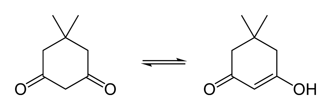 Skeletal formulae depicting the keto-enol tautomeric equilibrium of dimedone. Based on a similar diagram from Clayden, Jonathan; Nick Greeves, Stuart Warren, Peter Wothers [2001] "Formation and reactions of enols and enolates" in Organic Chemistry, Oxford University Press, pp. p. 532 ISBN: 0-19-850346-6.